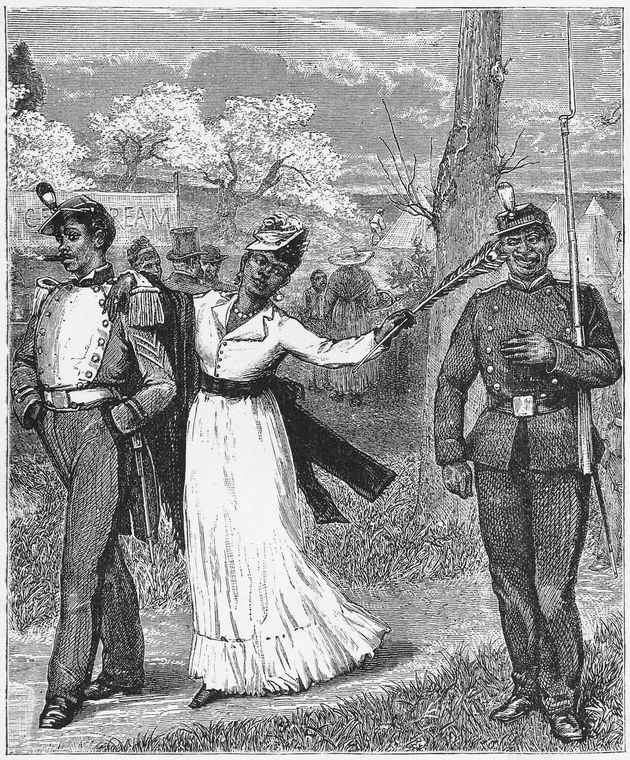 "Sunday in New Orleans" 1882 scene depicts soldier and woman walking together; the woman flirtingly brushes another soldier with an ostrich feather. All three are African-Americans. In background can be seen tents and a sign reading "Ice Cream".